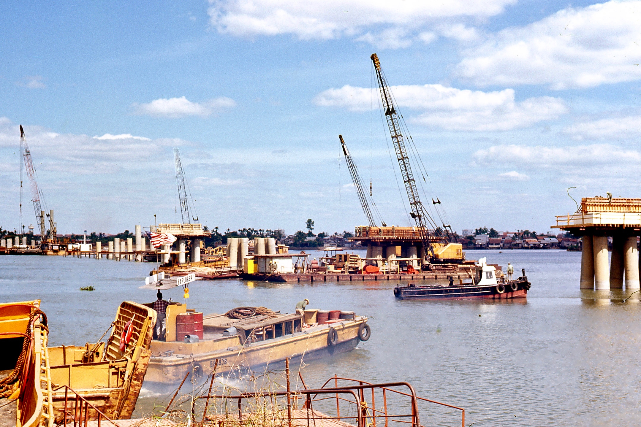 Major Bridge along the Saigon Bypass Highway west of Saigon, RVN, under construction by the American company RMK-BRJ